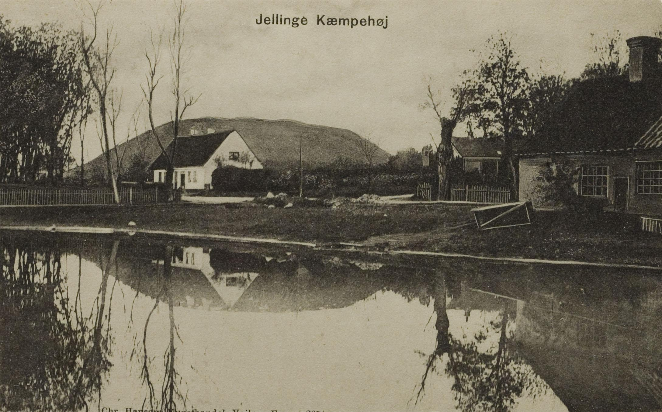 Around year 1900. Jelling is the small city where Harold Bluetooth had the giant Jelling stones erected to honour his parents and to tell that he turned the Danes to Christianity.